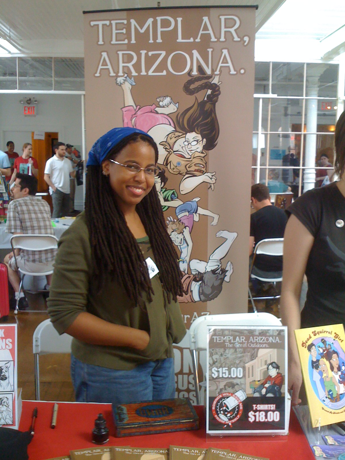 Charlie "Spike" Trotman and her Templar, Arizona characters at the 2008 MOCCA Festival in New York City, June 8, 2008.